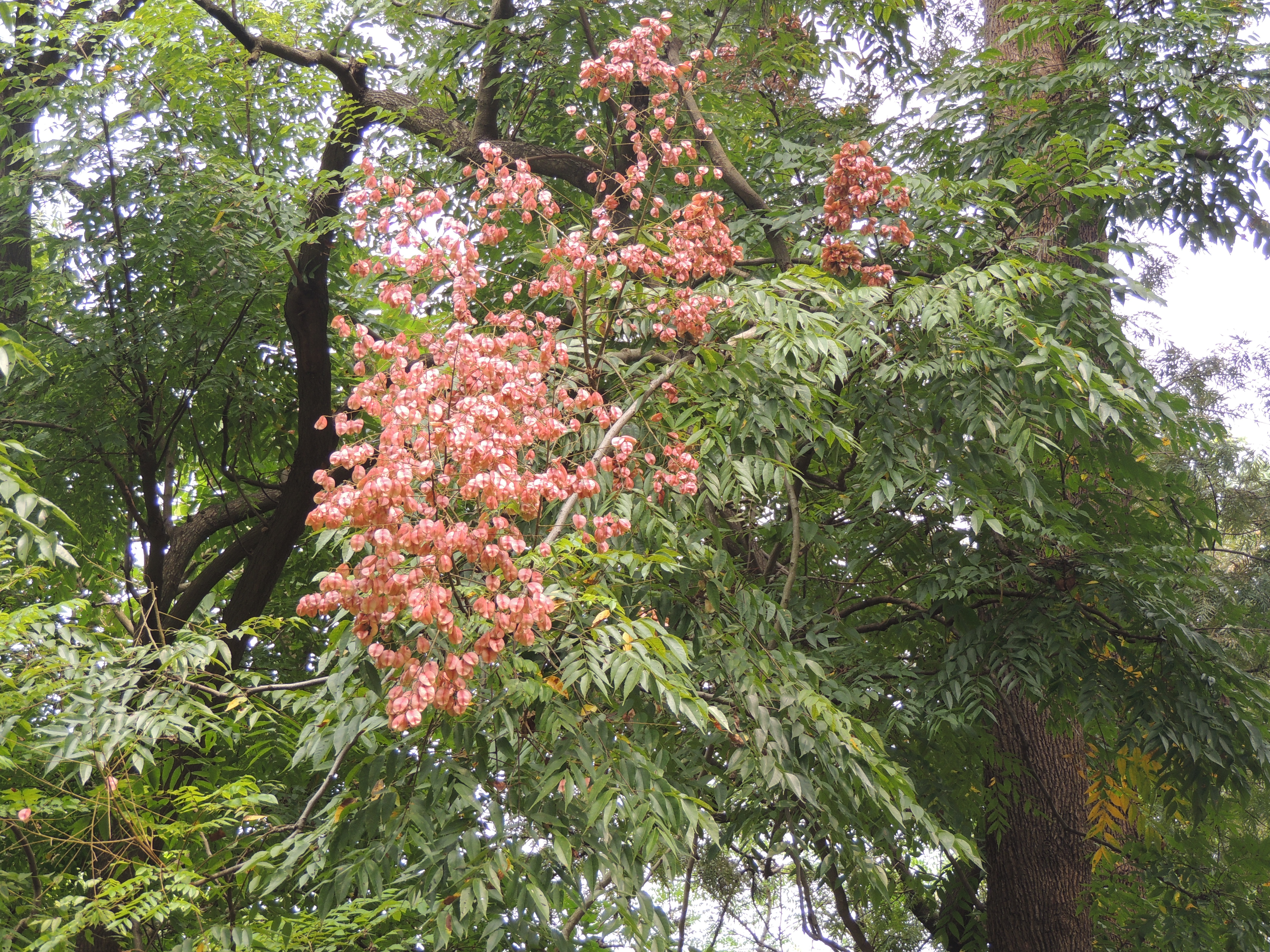 Koelreuteria elegans, native of Taiwan, Rajaji NP